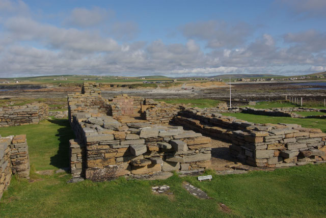 Brough of Birsay A settlement was first established on this tidal island by the Picts and was later used by the Vikings. Extensive remains can be seen, although some of the site has disappeared over eroded cliffs.